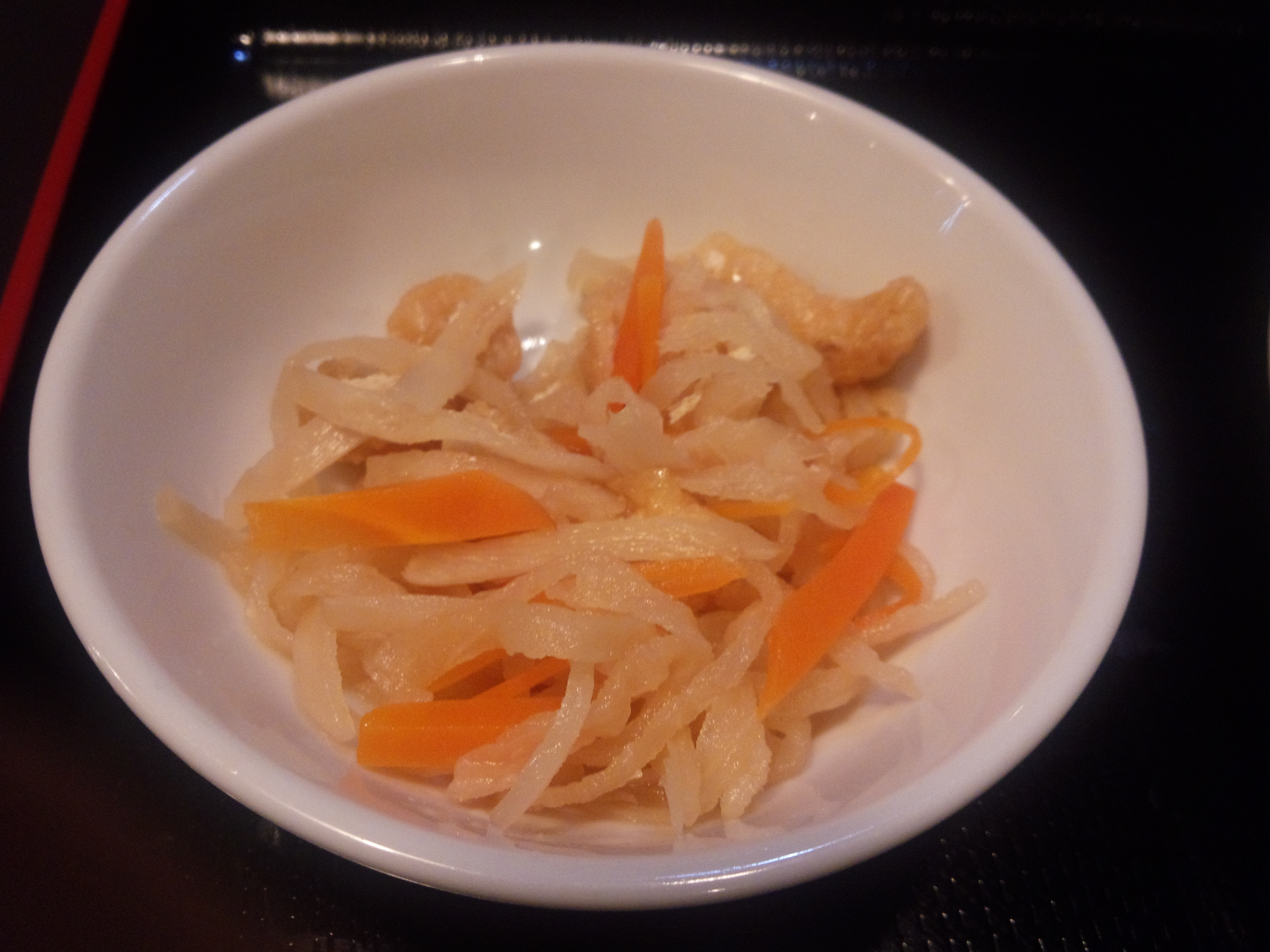 Simmered kiriboshi daikon (切り干し大根 dried strips of radish)